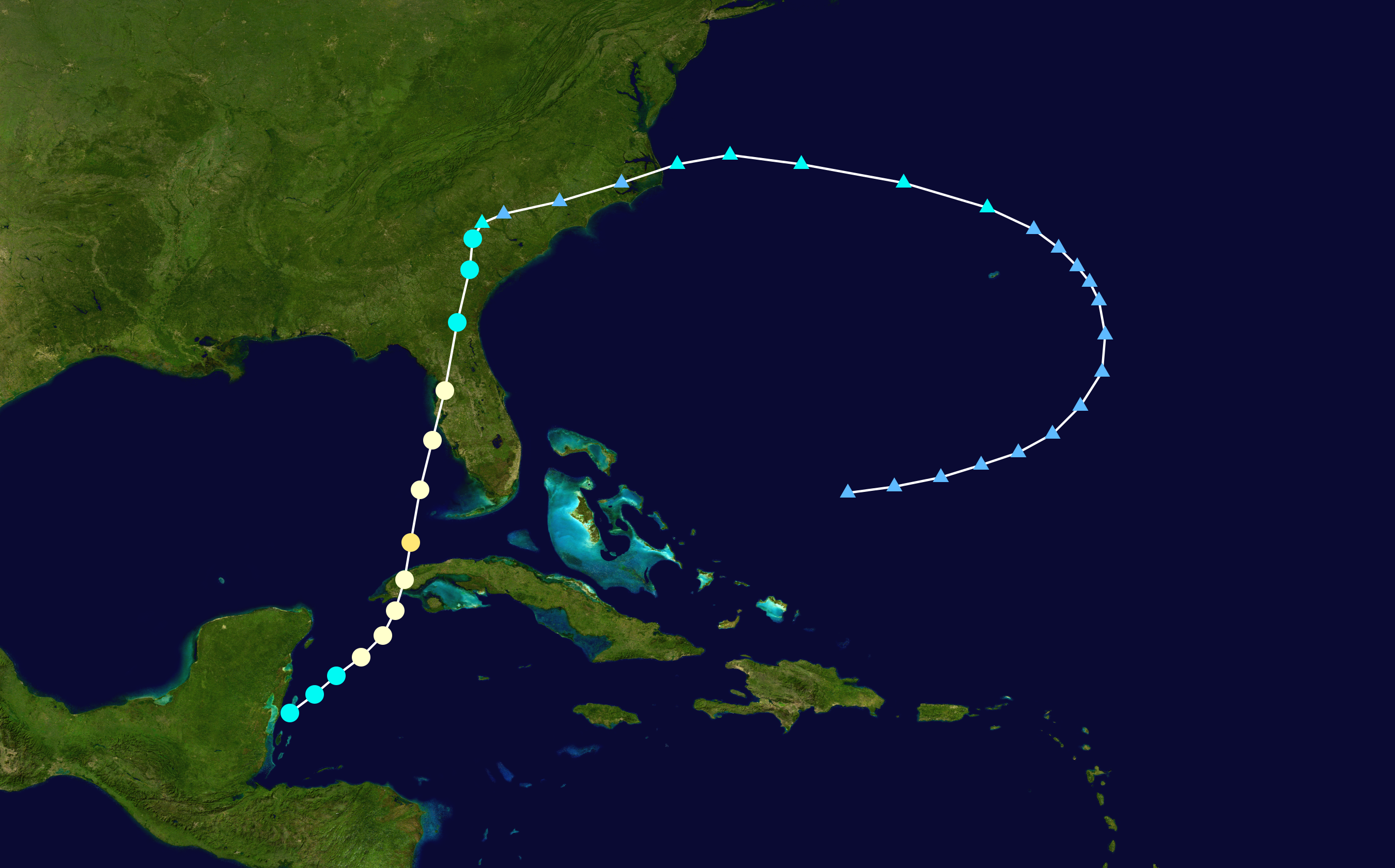 1946 Atlantic hurricane 5 track. Uses the color scheme from the Saffir-Simpson Hurricane Scale.